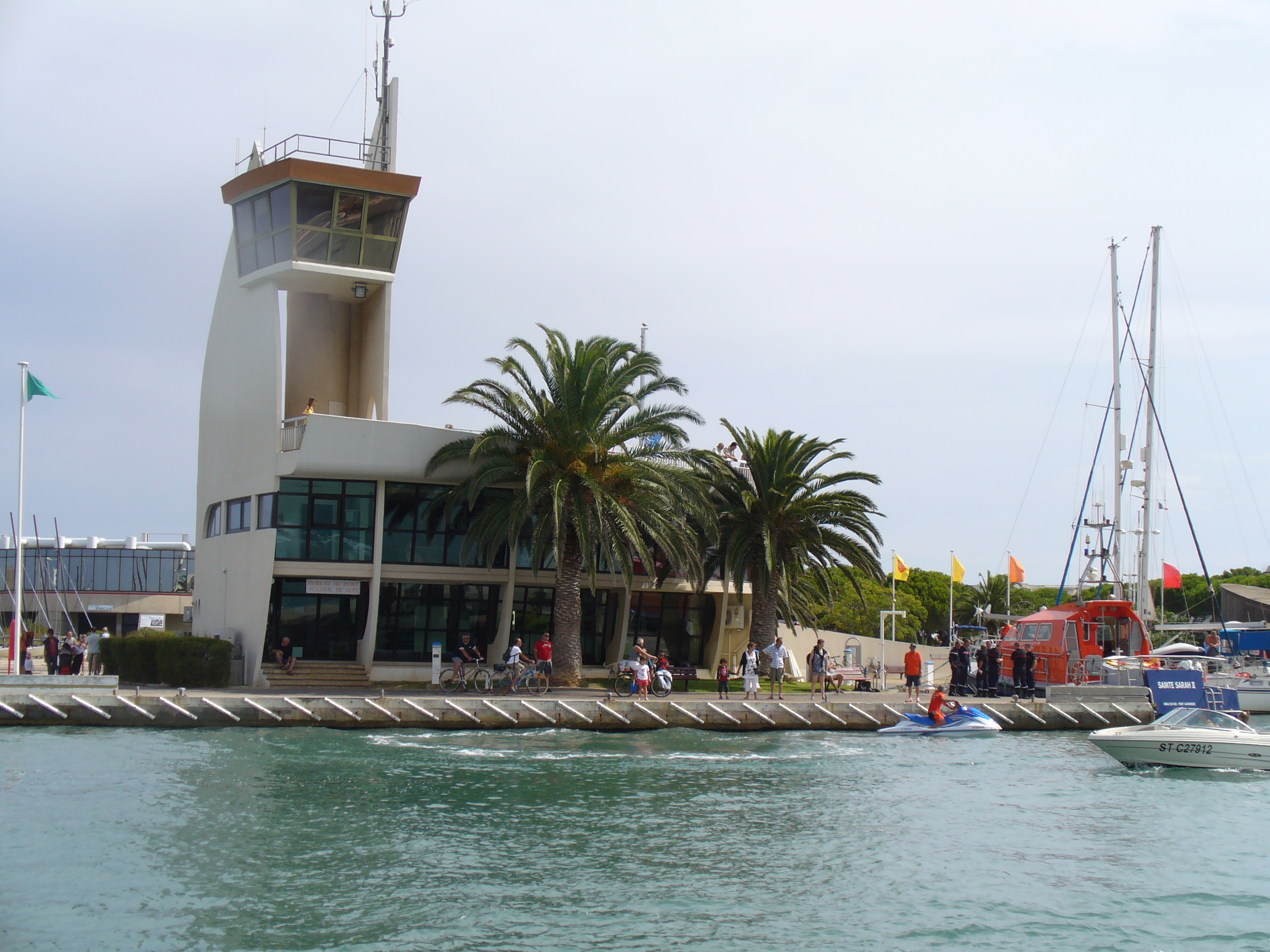 Capaitainerie at the entrance of Port Camargue, in Le Grau du Roi (South of France)